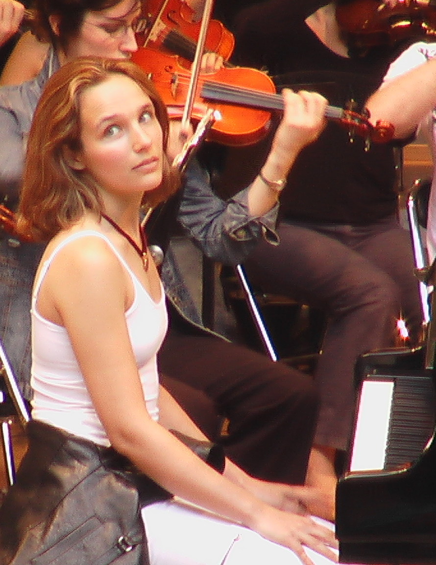 French pianist Hélène Grimaud during rehearsal on a Steinway concert grand piano at the La Roque-d'Anthéron International piano festival. Cropped version for use in collages etc.